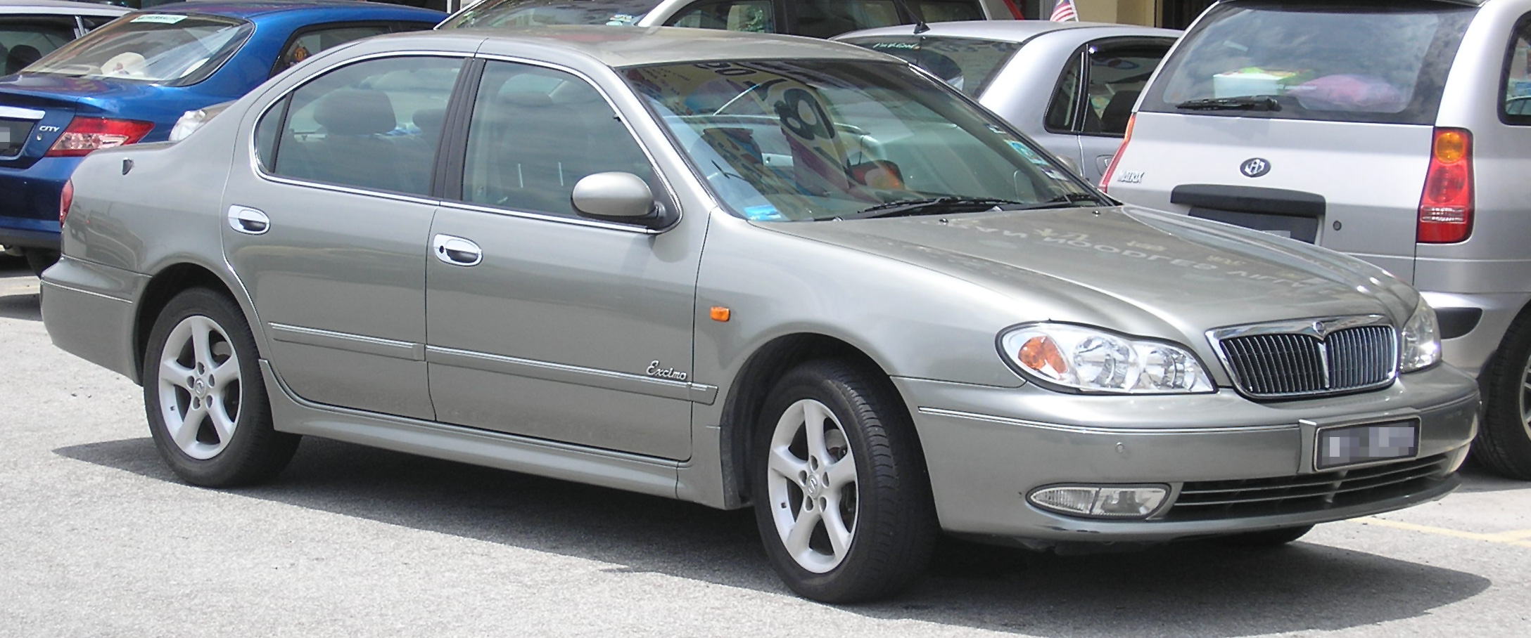 Front-side shot of a third generation Nissan Cefiro (Excimo 2.0G), in Serdang, Selangor, Malaysia.